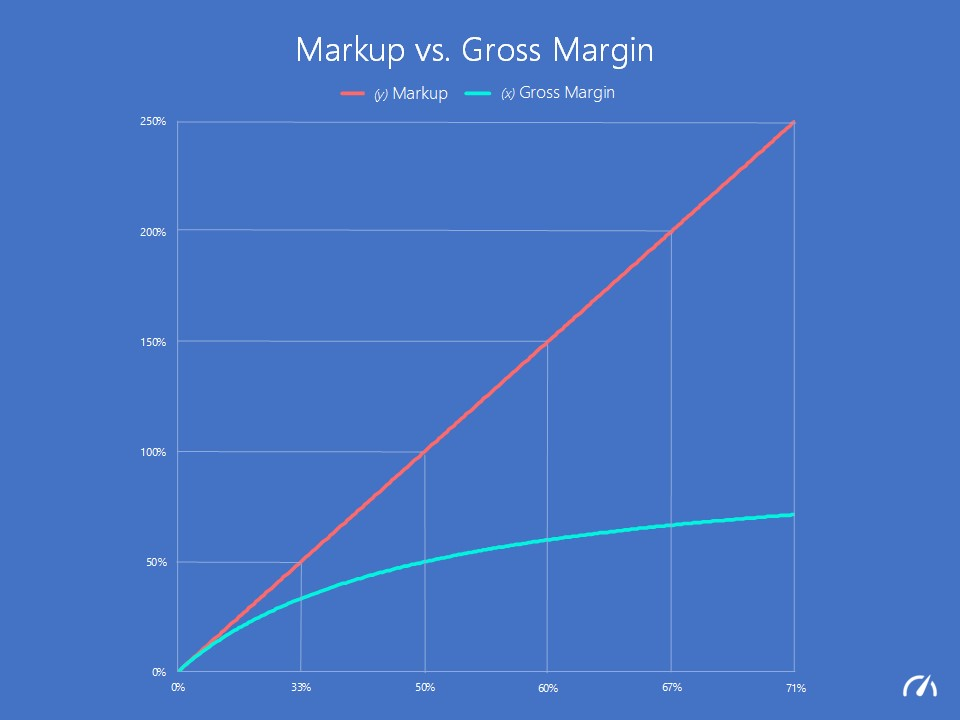 Markup vs. Gross Margin (by Adrián Chiogna)